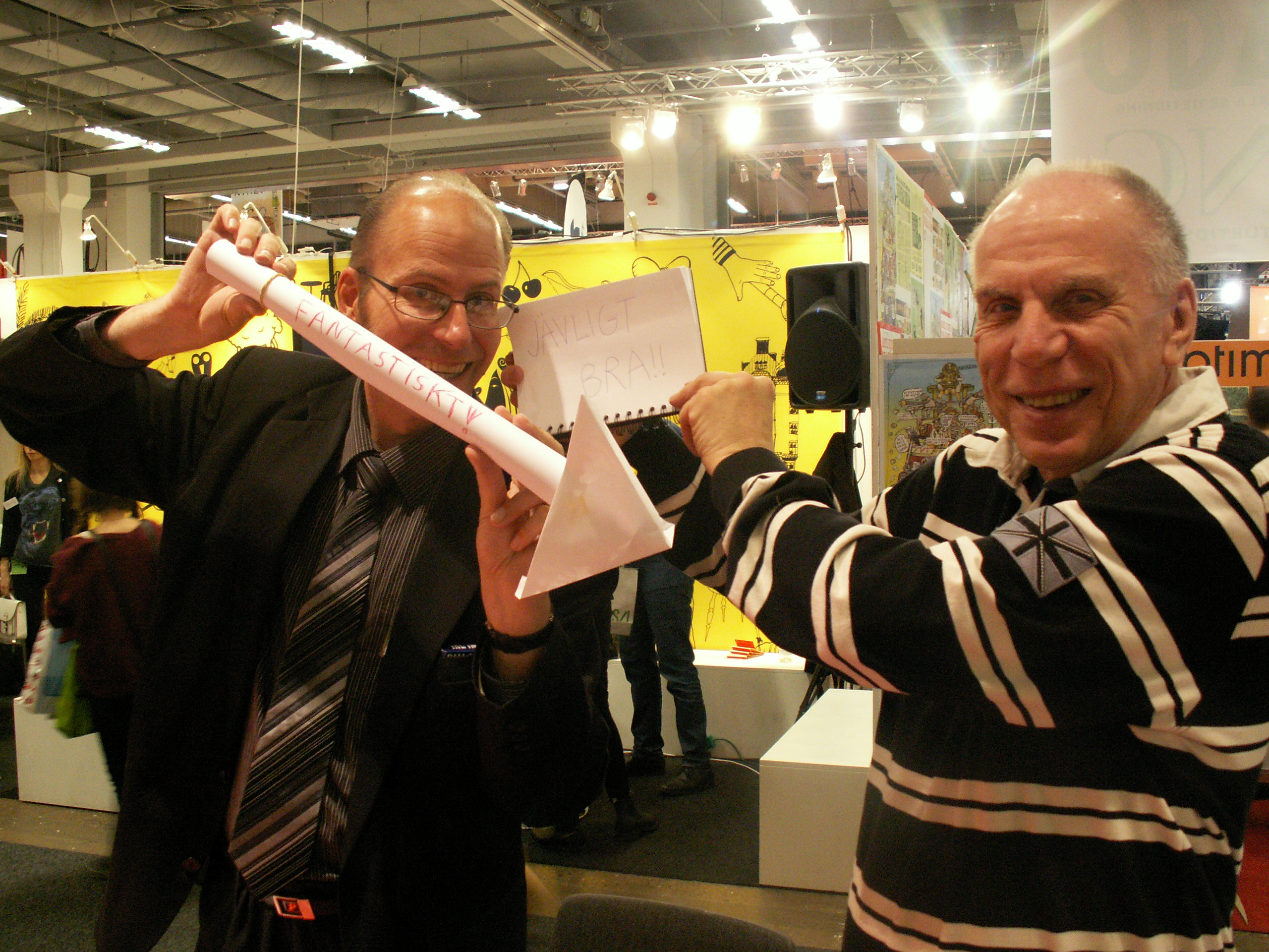 Comics writer and journalist Pidde Andersson (left) and president of Svenska Serieakademin Sture Hegerfors (right), at the 2012 Göteborg book fair.